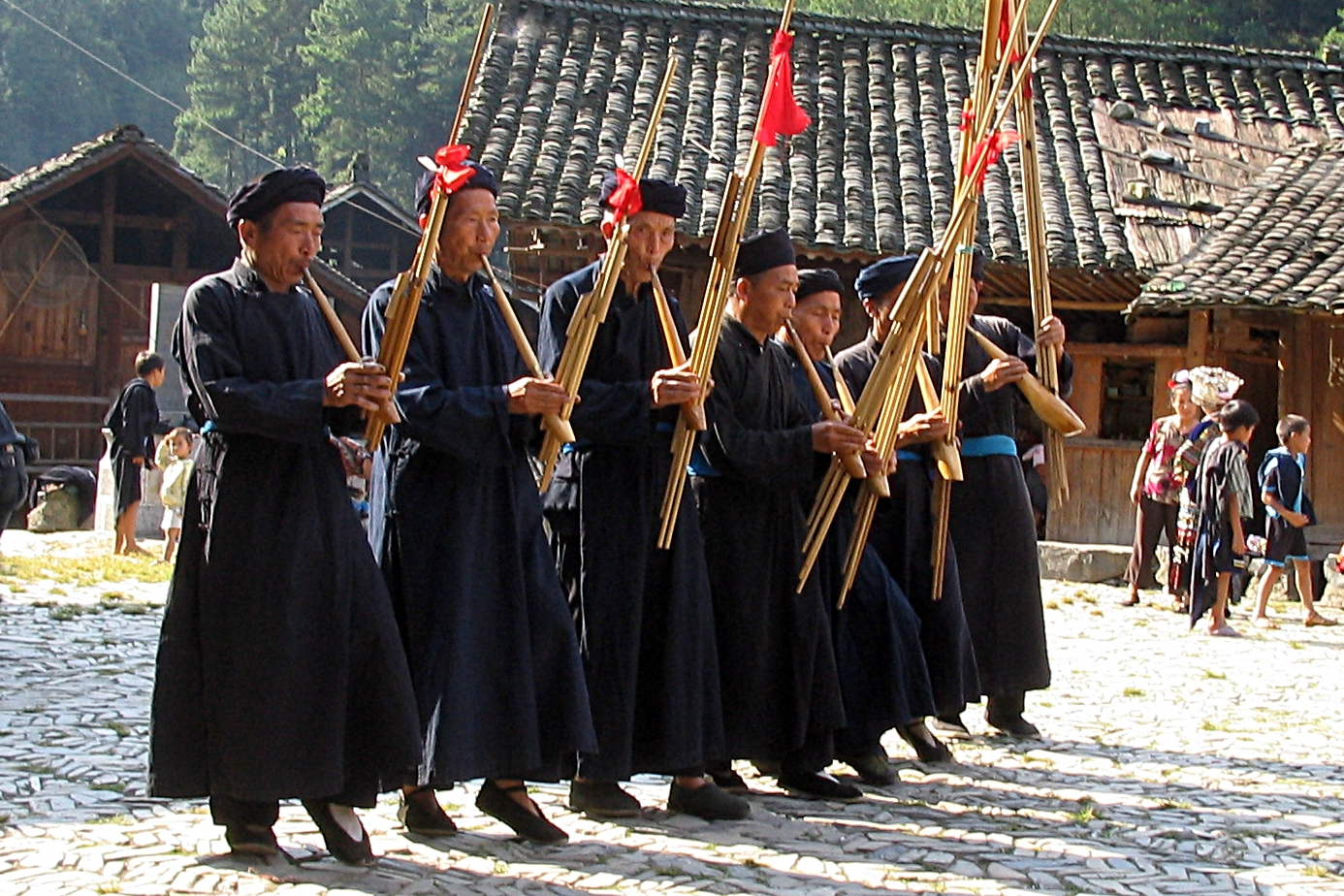 Hmong musicians perform on traditional free-reed instruments in Upper Lang De in Guizhou, China.